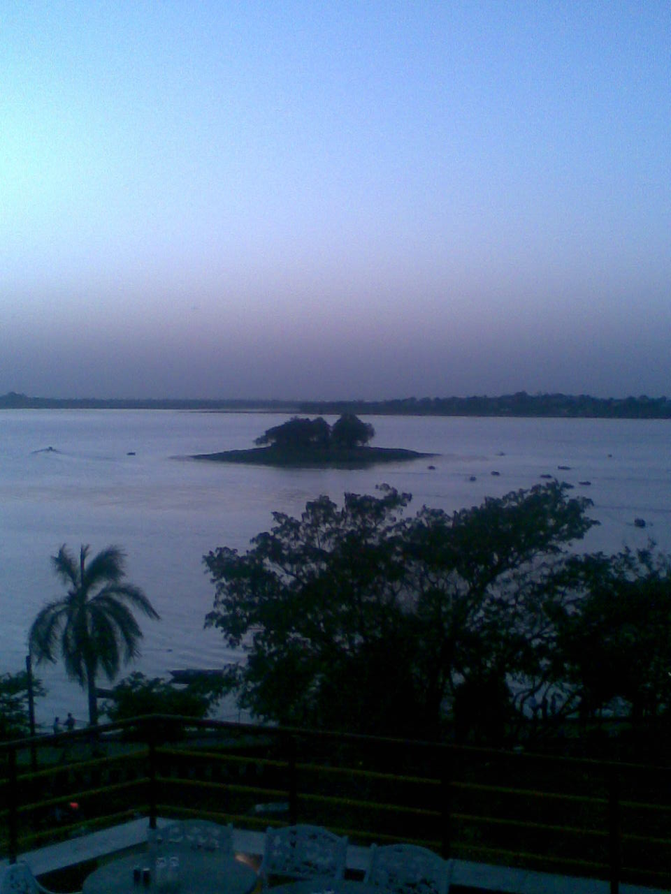 Upper Lake (Bhoj Taal) and Takia Taapu seen from Winds and Waves restaurant near Upper Lake,Bhopal